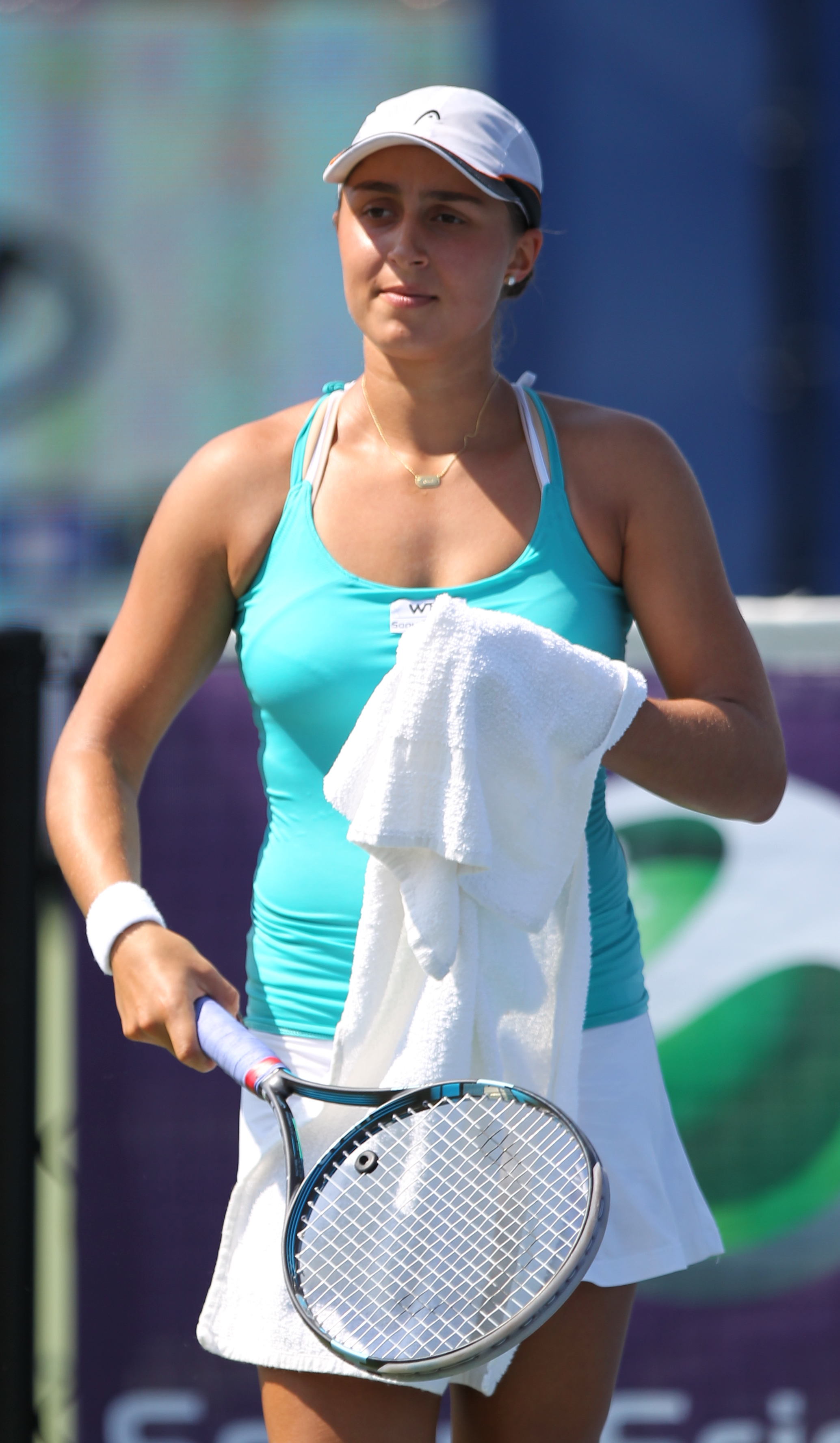 Citi Open Tennis July 30, 2011